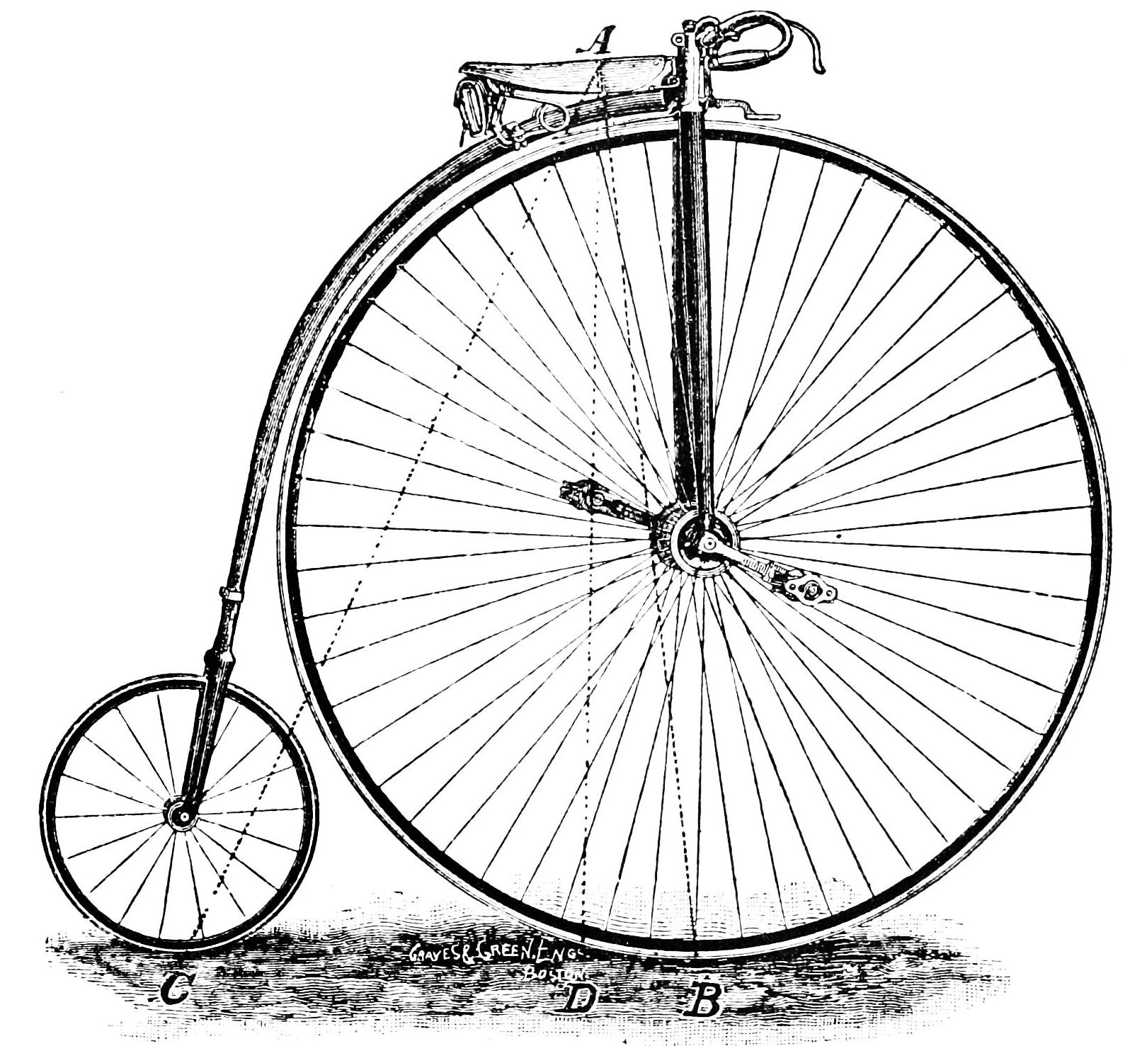 An ordinary bicycle with lines of force